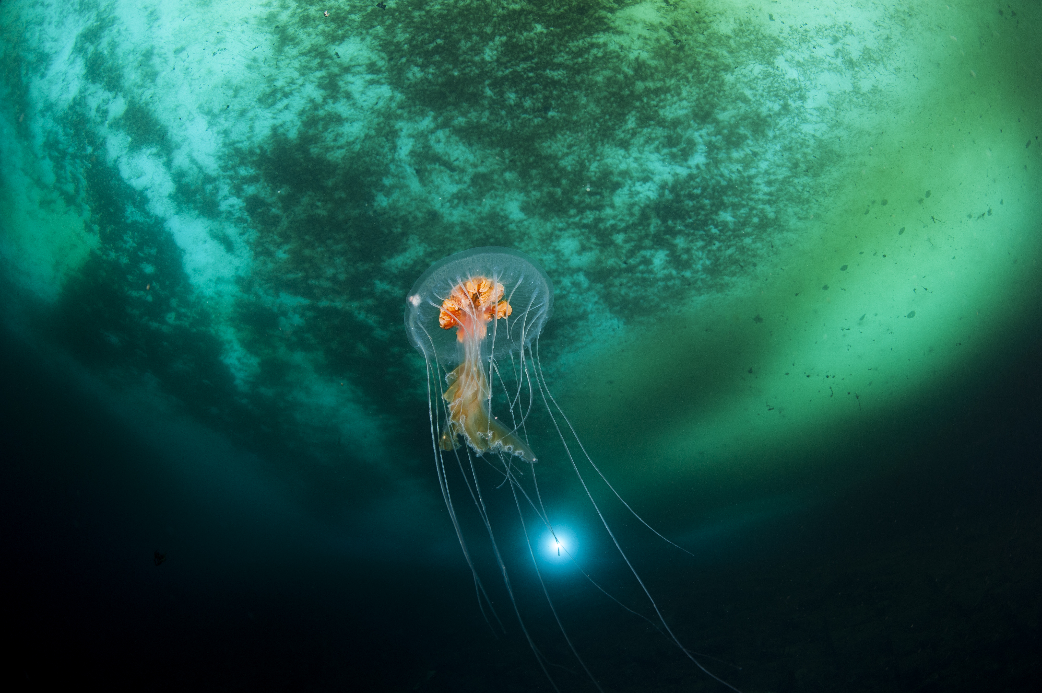 Underwater Antarctic biodiversity (French scientific base in Antarctica). Identified as Diplulmaris antarctica by Prof. Andre C. Morandini: “ Sometimes it is not so easy to identify animals by photographs, but in this case we can see some important features. It is a scyphozoan jellyfish of the order Semaeostomeae, due to the general body shape but mostly because of the marginal tentacles and elongated oral arms. It is a member of the family Ulmaridae because the gastric cavity is divided in canals, as can be seen by transparency. Subfamily Ulmarinae because tentacles arise from the margin and gonads are protrusive (the orange pleated tissue in the center). The difference between the genera of this subfamily (Diplulmaris, Discomedusa, Floresca, Parumbrosa, Ulmaris, Undosa) are the number of sense organs (rhopalia) and the number of tentacles, besides some canal system organization. As far as I can see the animal in the photo has 21 tentacles and 10 rhopalia (probably more of both). But the angle of the image does not allow me to see more. I think it is a Diplulmaris antarctica, by the way from all valid species of the subfamily, this is the only one known from Antarctic waters. The species has 16 sense organs and 16-48 tentacles. If you Google it, at least the first images are OK. ”